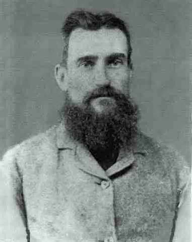 William Westwood, aka Jackey Jackey or the “Gentleman Bushranger". He staged his first hold-up here near Carwoola in 1840.